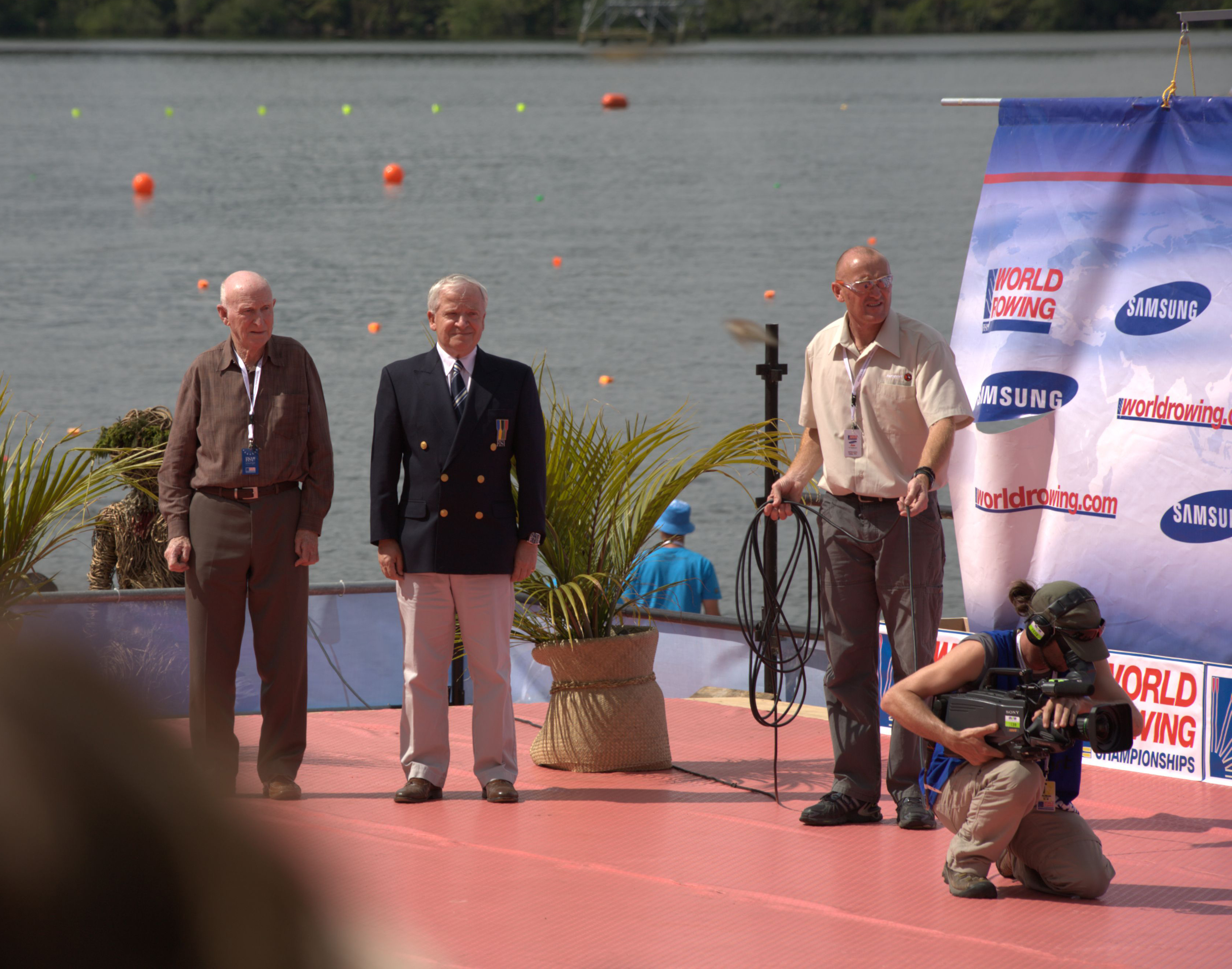 On the left is Sir Murray Halberg, a Kiwi athletic legend. 2010 World Rowing Championships.